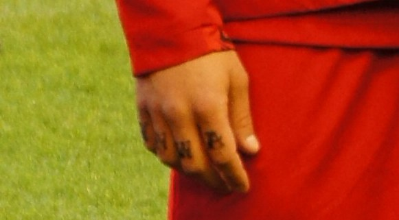 Daniel Agger's tattoo on his knuckles.